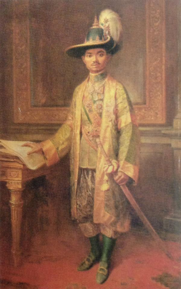 Portrait of Prajadhipok, Rama VII of Siam. Original description on the English language Wikipedia: Crop of portrait of King Prajadhipok which is displayed in the Chakri Mahaprasad Hall at the Grand Palace, Bangkok. Portrait created during his reign, meaning it was created no later than 1935 (identity of the creator is unknown to the uploader). Image taken from web page of the Public Relations Department, Region 3, at